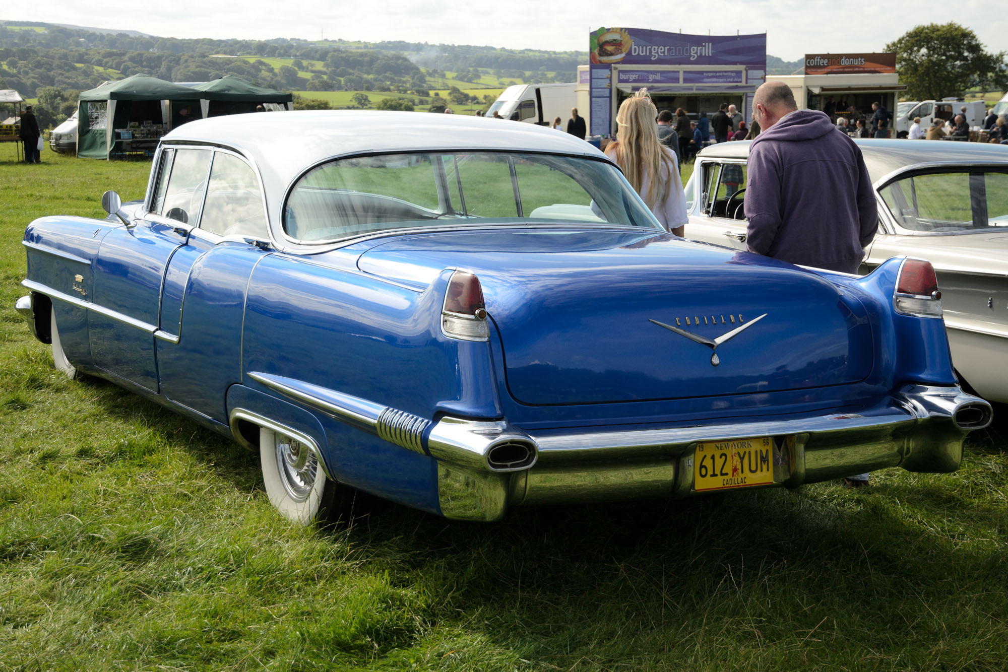 Hoghton Tower Classic Car Show 13/09/2015